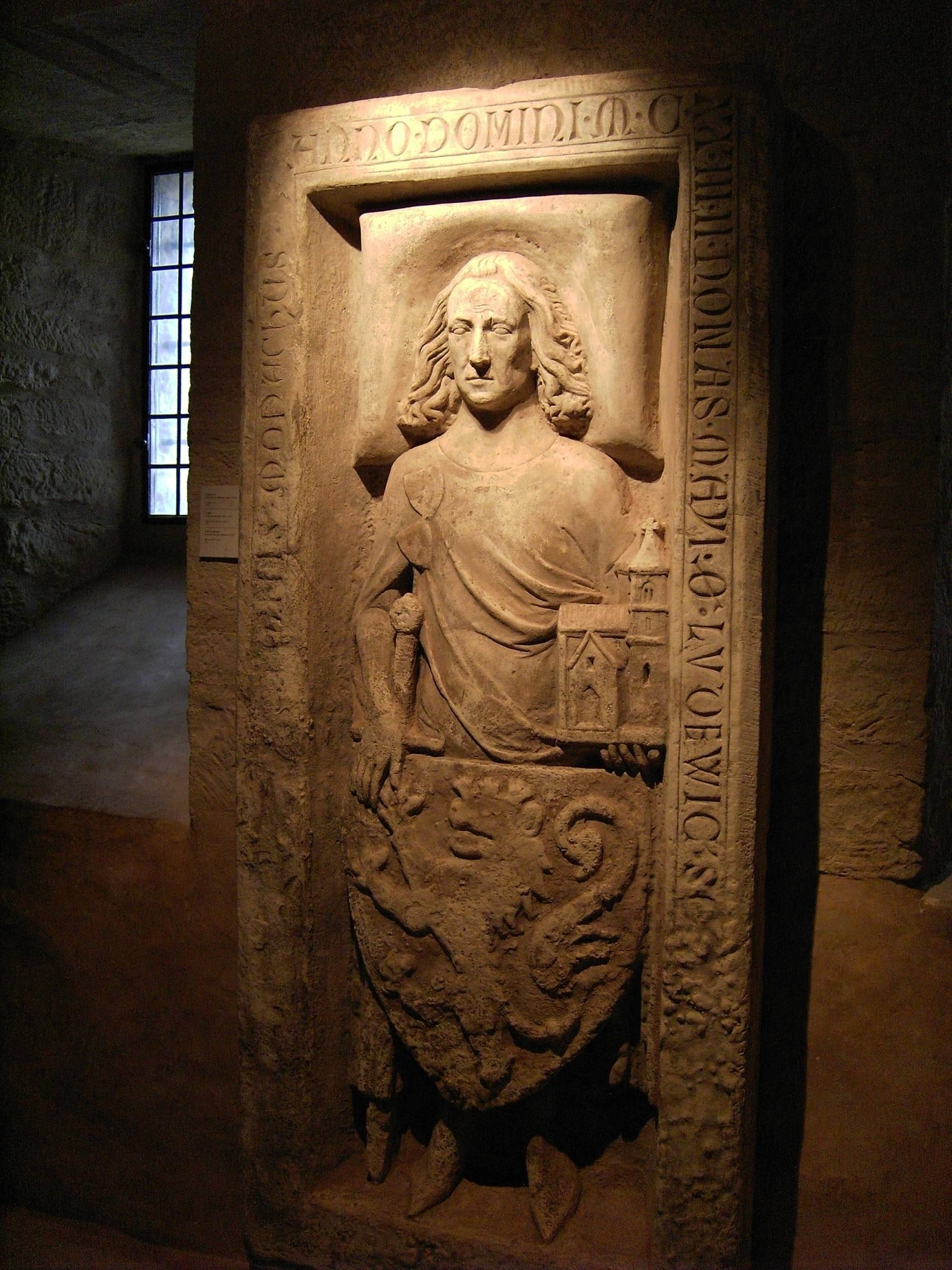 Wartburg, Ludwig der Springer, tomb cover.